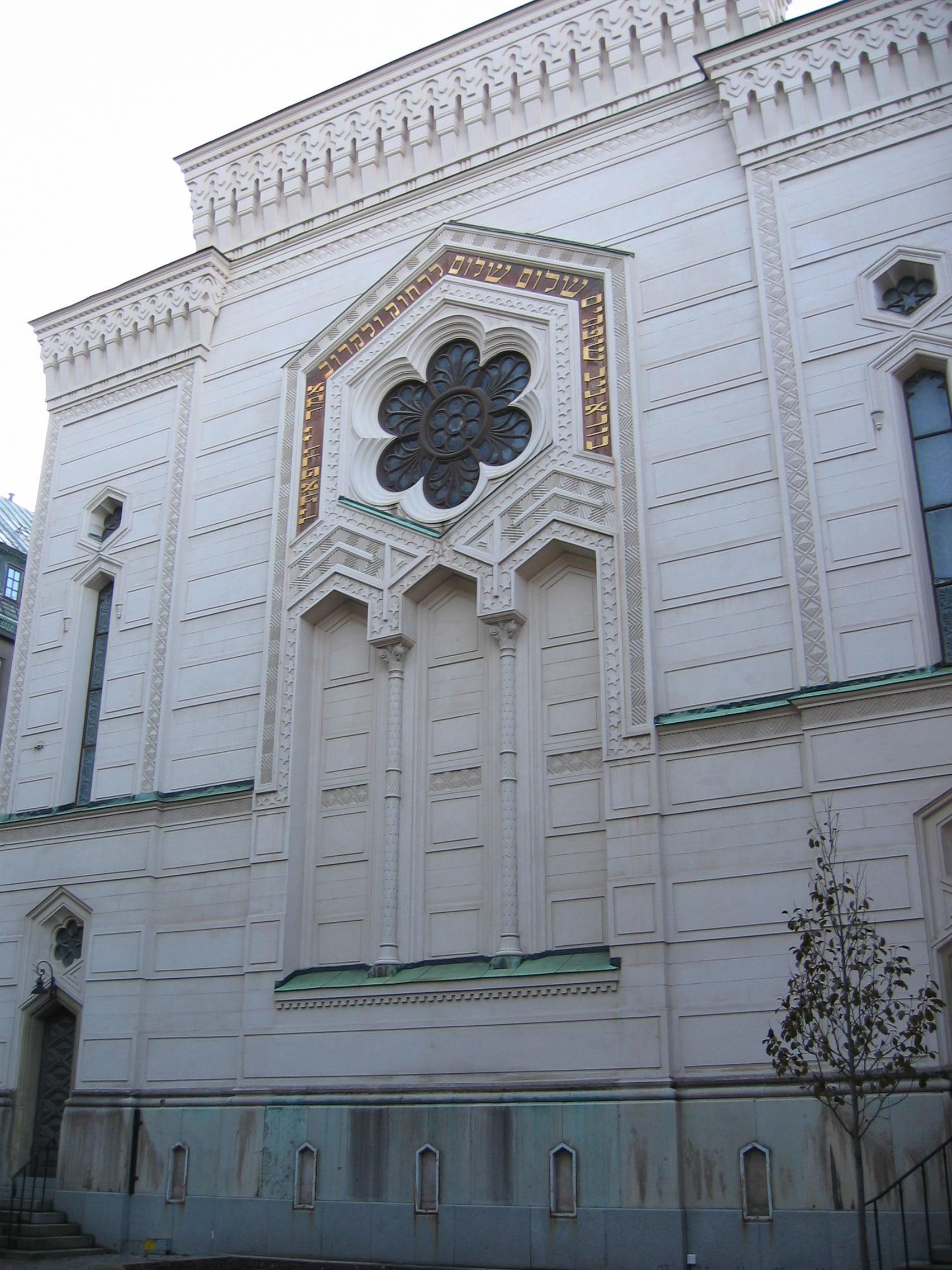 Synagogan i Stockholm. Bild tagen av mig själv, 2006 Synagogue in Stockholm, Sweden. Photograph taken by me, 2006 The Hebrew writing in gold is a scriptural verse (Isaiah 57:19) that reads "I create the fruit of the lips; Peace, peace to him that is far off, and to him that is near, said the LORD; and I will heal him."